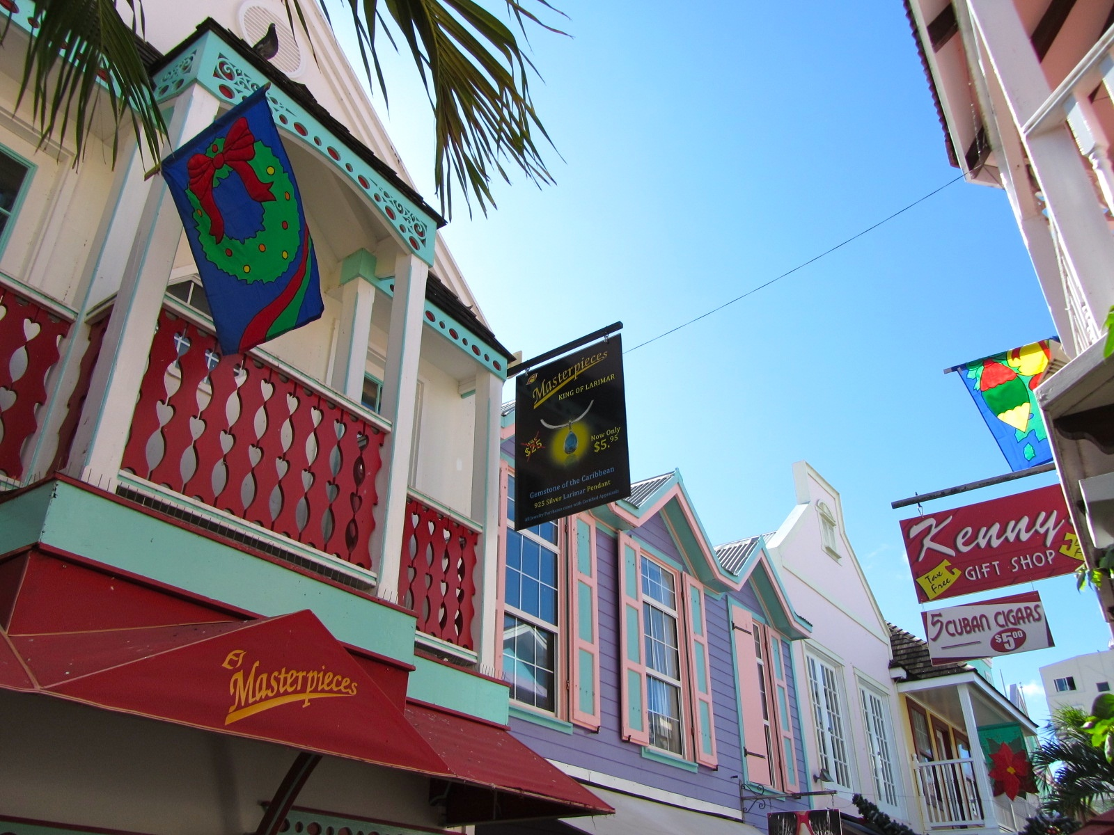 Eastern Glance Of Old Street Shops